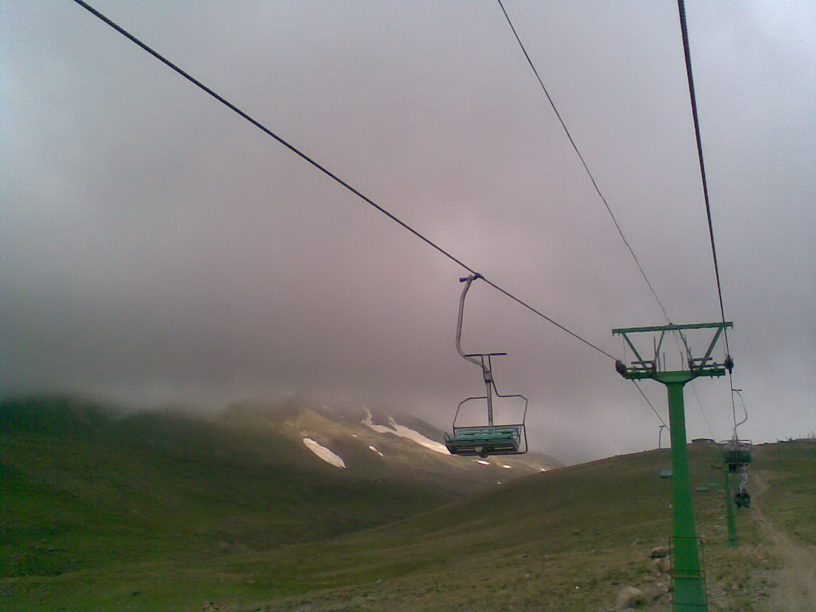 Alvars cable car, Ardabil